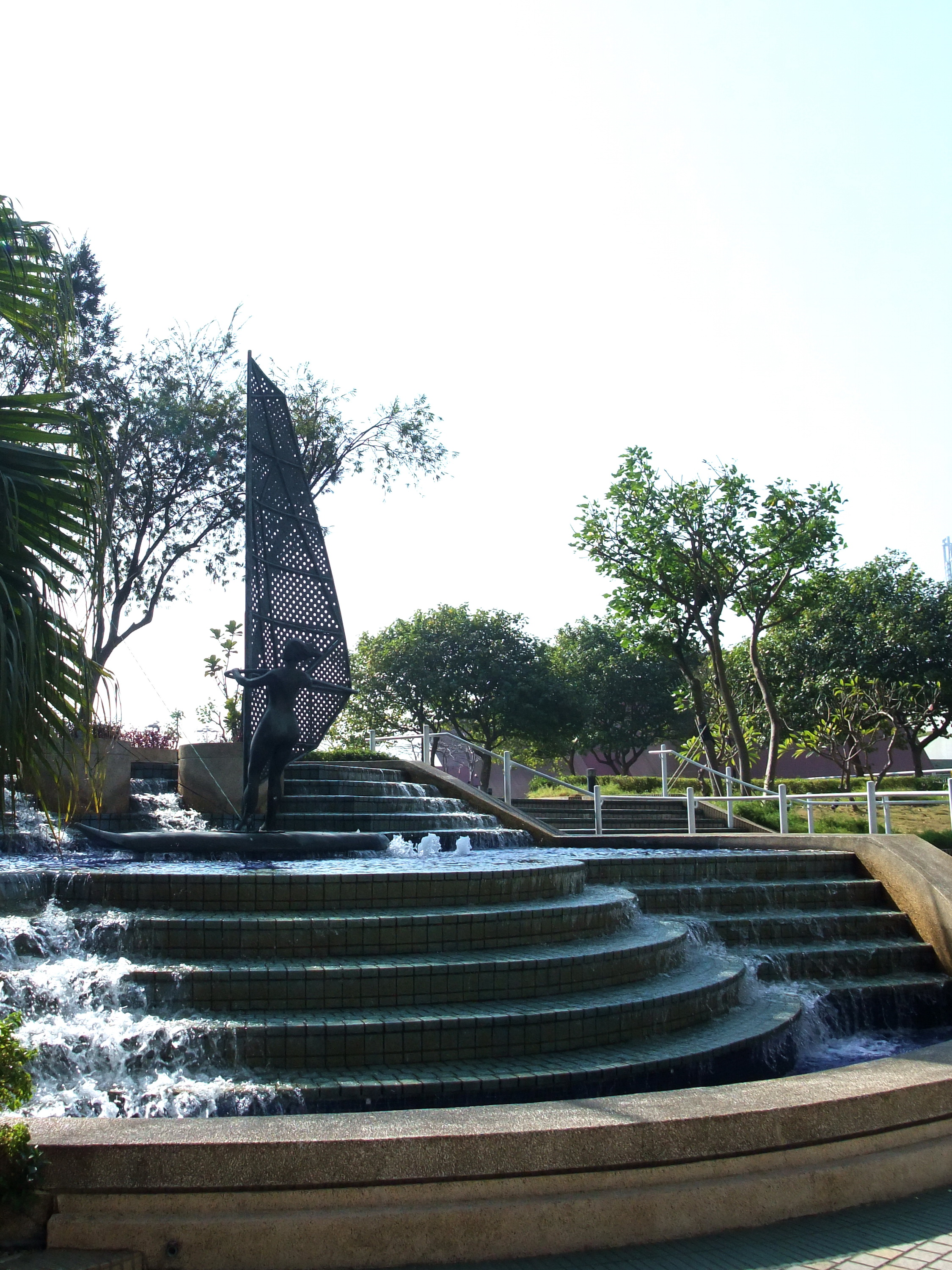 Olympian Park in Olympian City, Kowloon, Hong Kong.